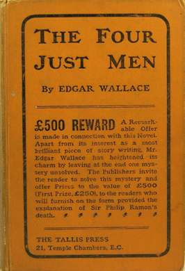 Cover of the 1st edition of Edgar Wallace's novel The Four Just Men.